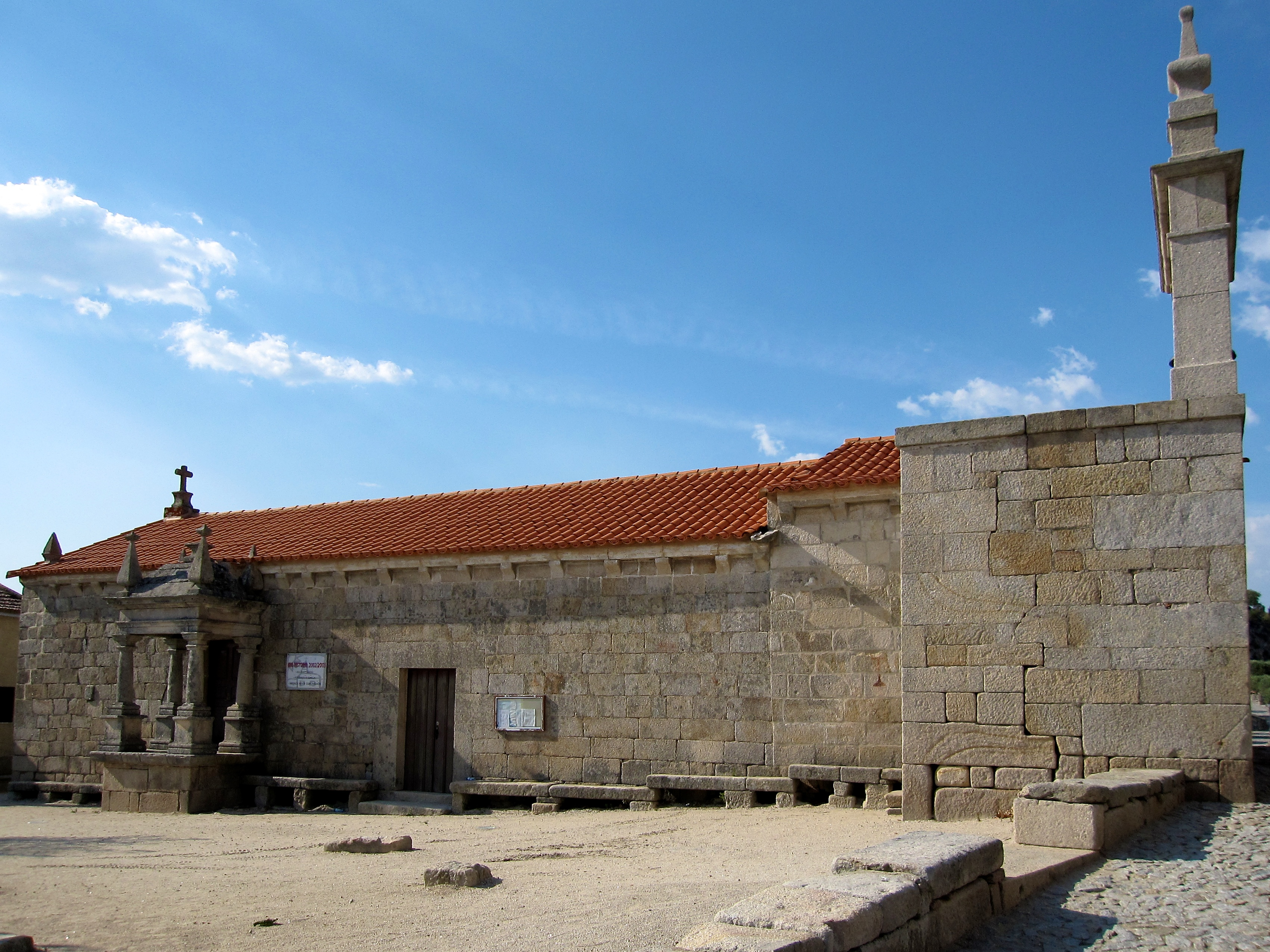 This file was uploaded for Wiki Loves Monuments in Portugal with the unique identifier 155765.